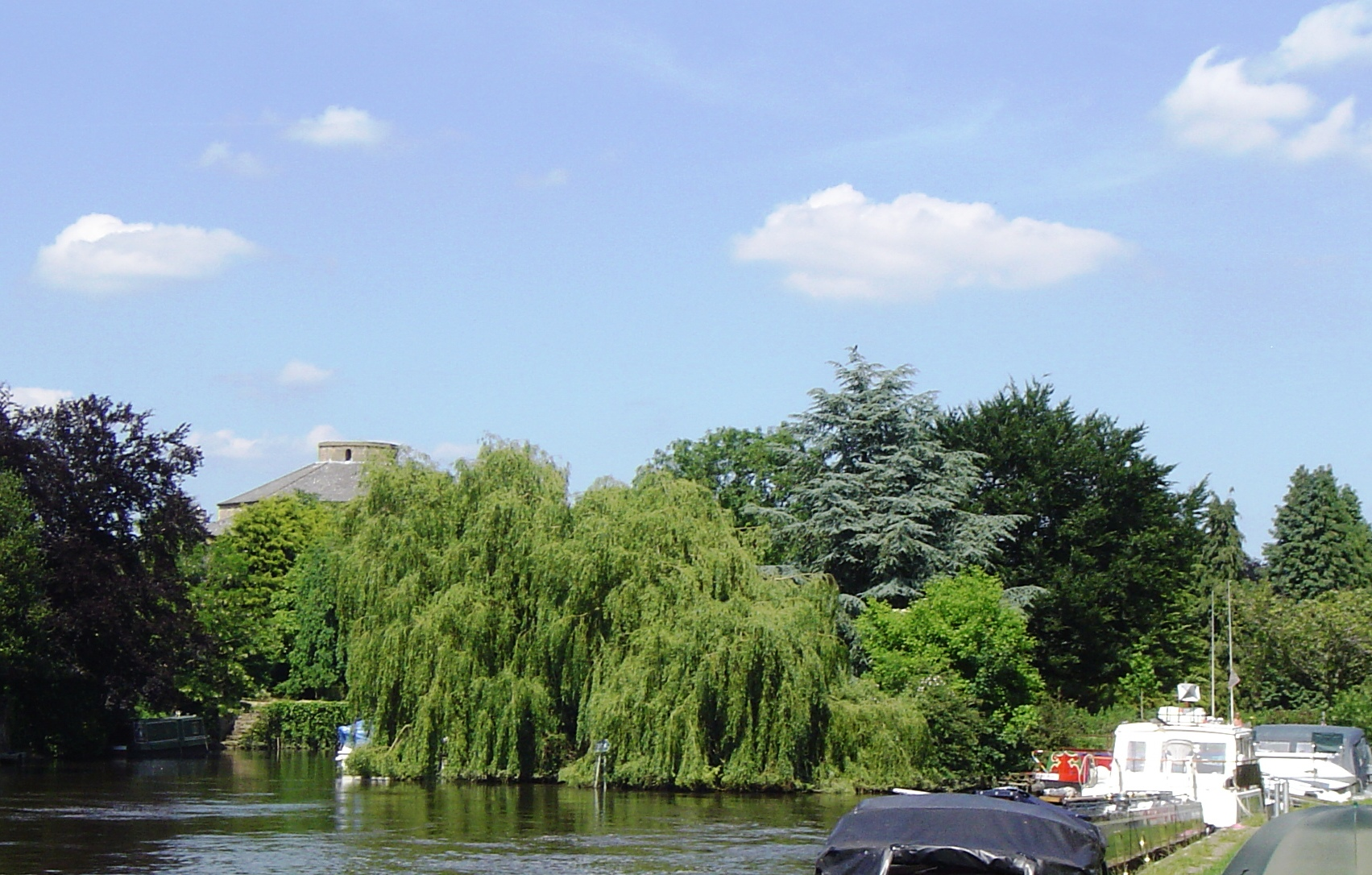 Abingdon Nags Head Isle